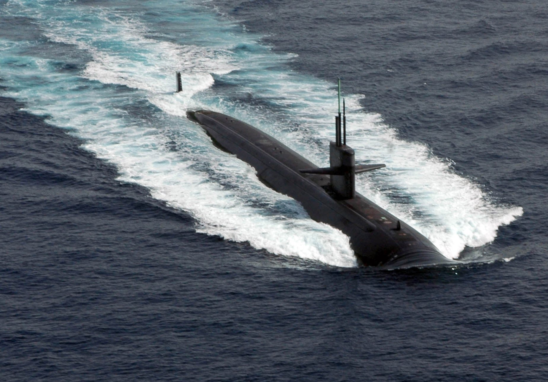 080417-N-3165S-098 ARABIAN SEA The Los Angeles class fast-attack submarine USS Norfolk (SSN-714) leads a formation of ships taking part in Operation Arabian Shark '08. Operation Arabian Shark '08 is a joint exercise focusing on anti-submarine warfare between the navies of the United States, Bahrain, and Pakistan.